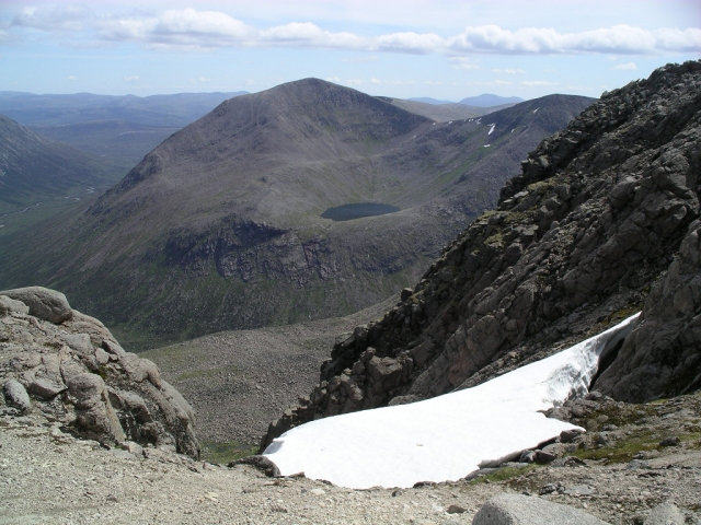 Cairn Toul from near the summit of Braeriach in the Cairngorm Mountains of Scotland.